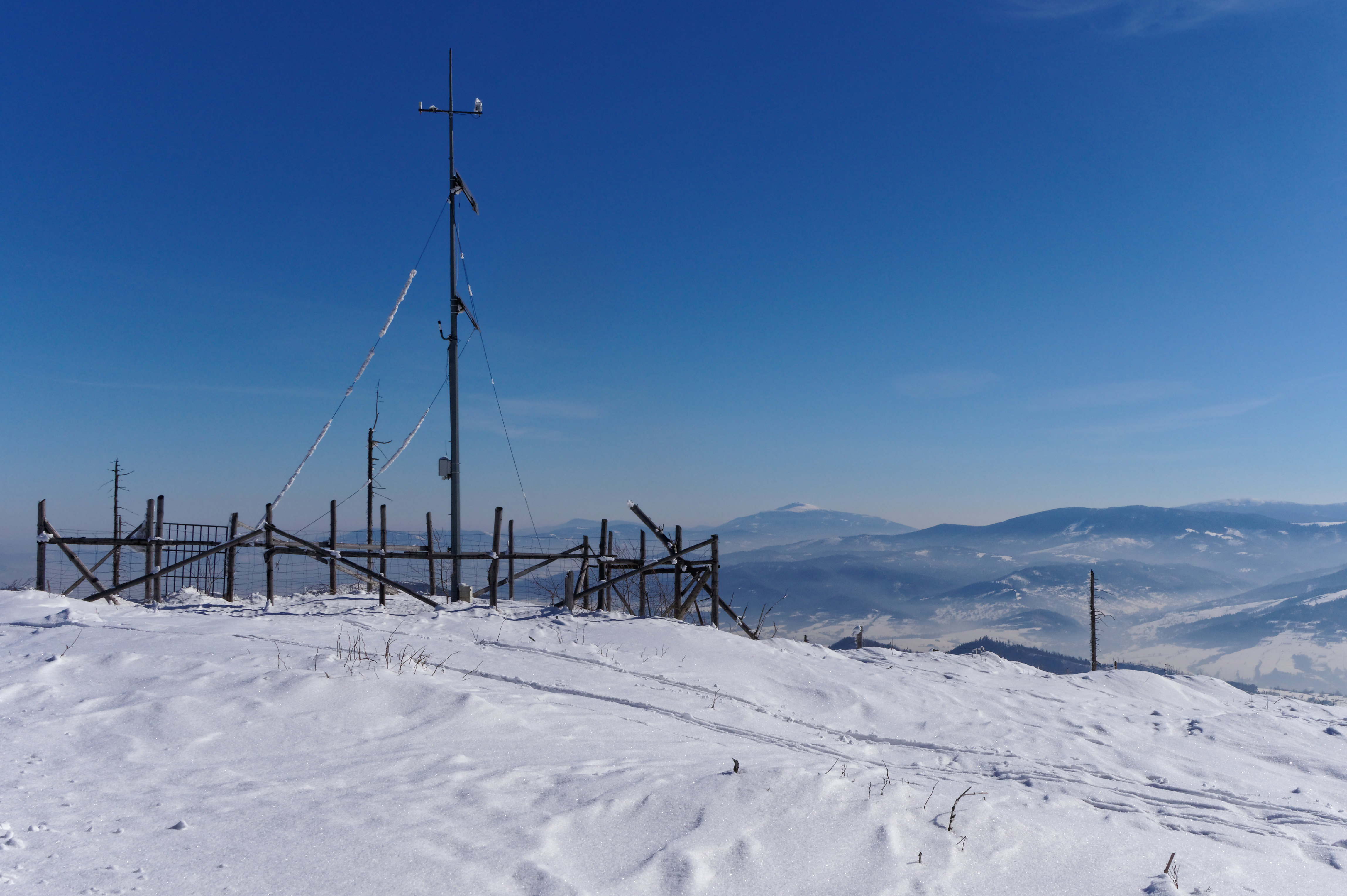 Weather station on Barania Góra in Silesian Beskids. Babia Góra in the background